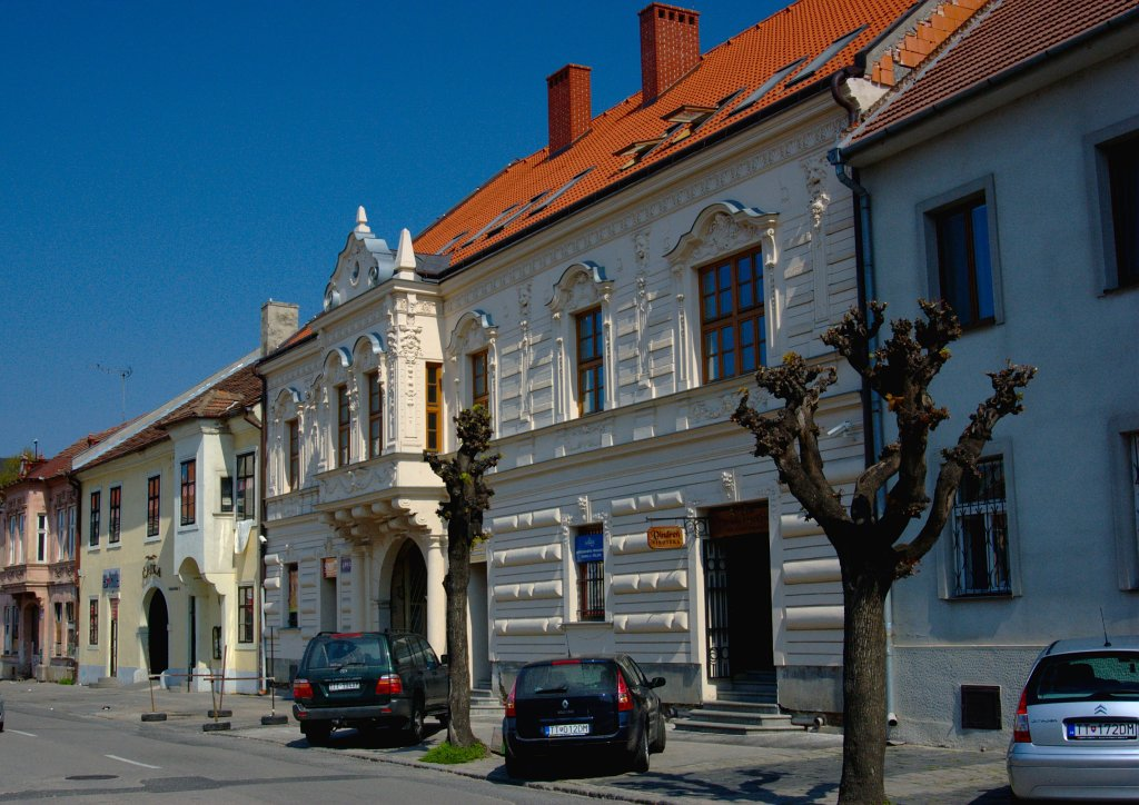 Halenárska street, Trnava